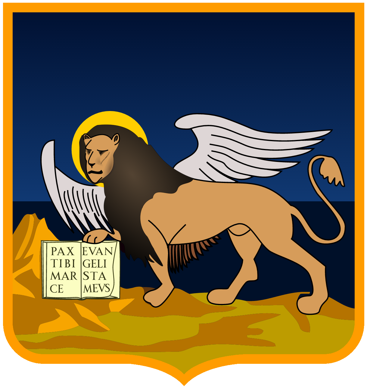 Coat of Arms of VenetoVèneto: Stema del Vèneto